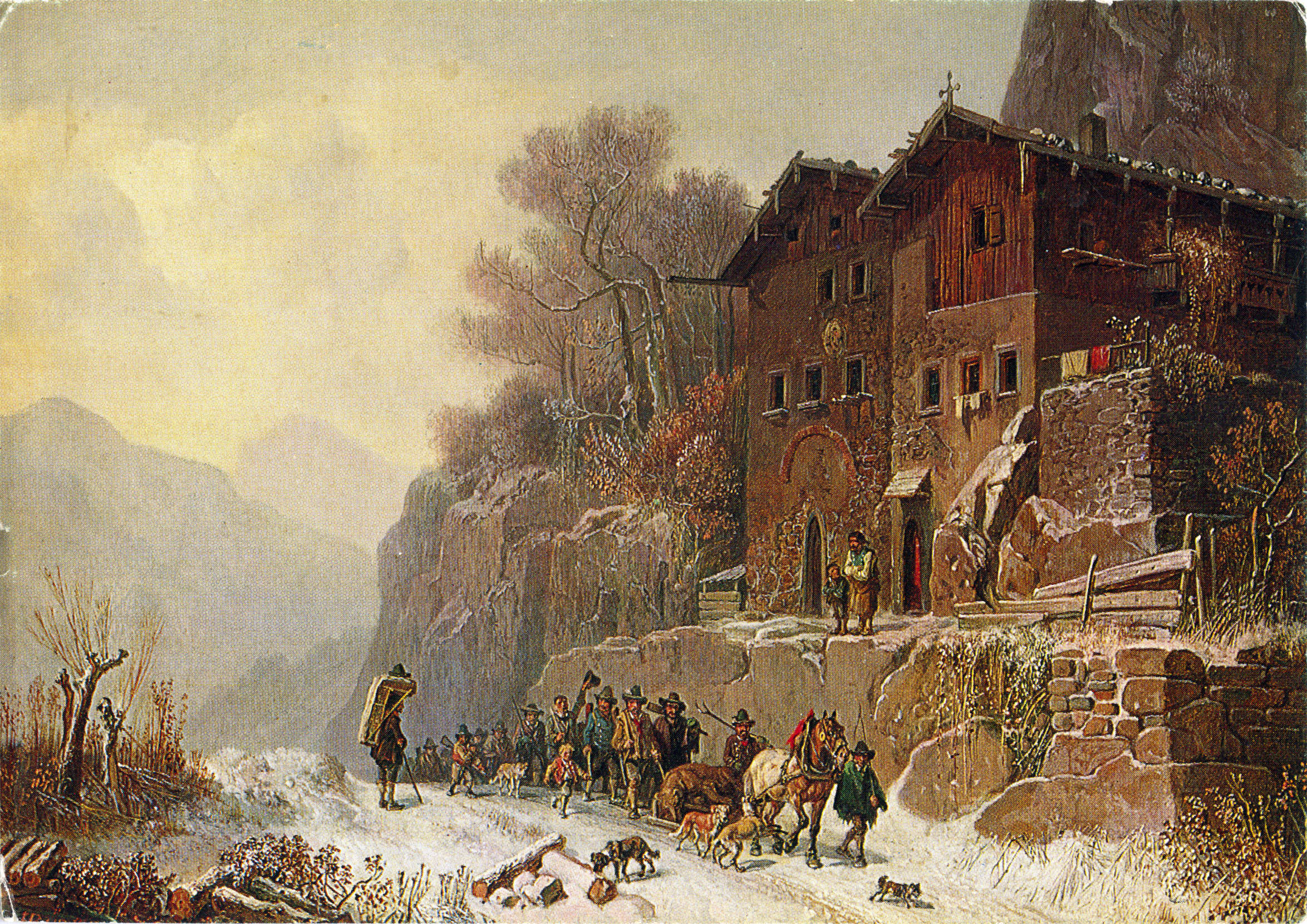 The return of a bear hunting party depicted in a painting of Heinrich Bürkel.